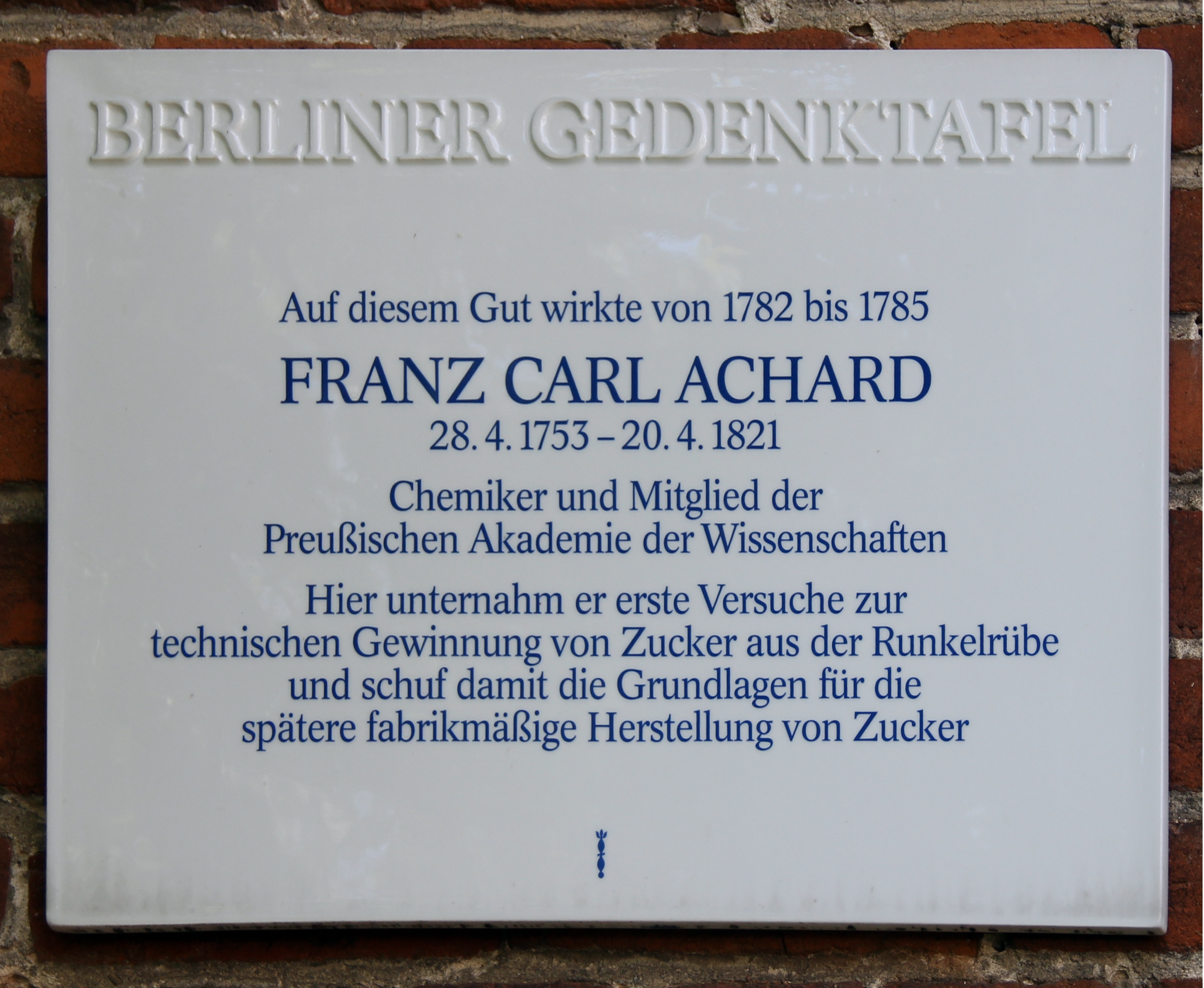 Berlin memorial plaque, Franz Carl Achard, Dorfstraße 1, Berlin-Kaulsdorf, Germany